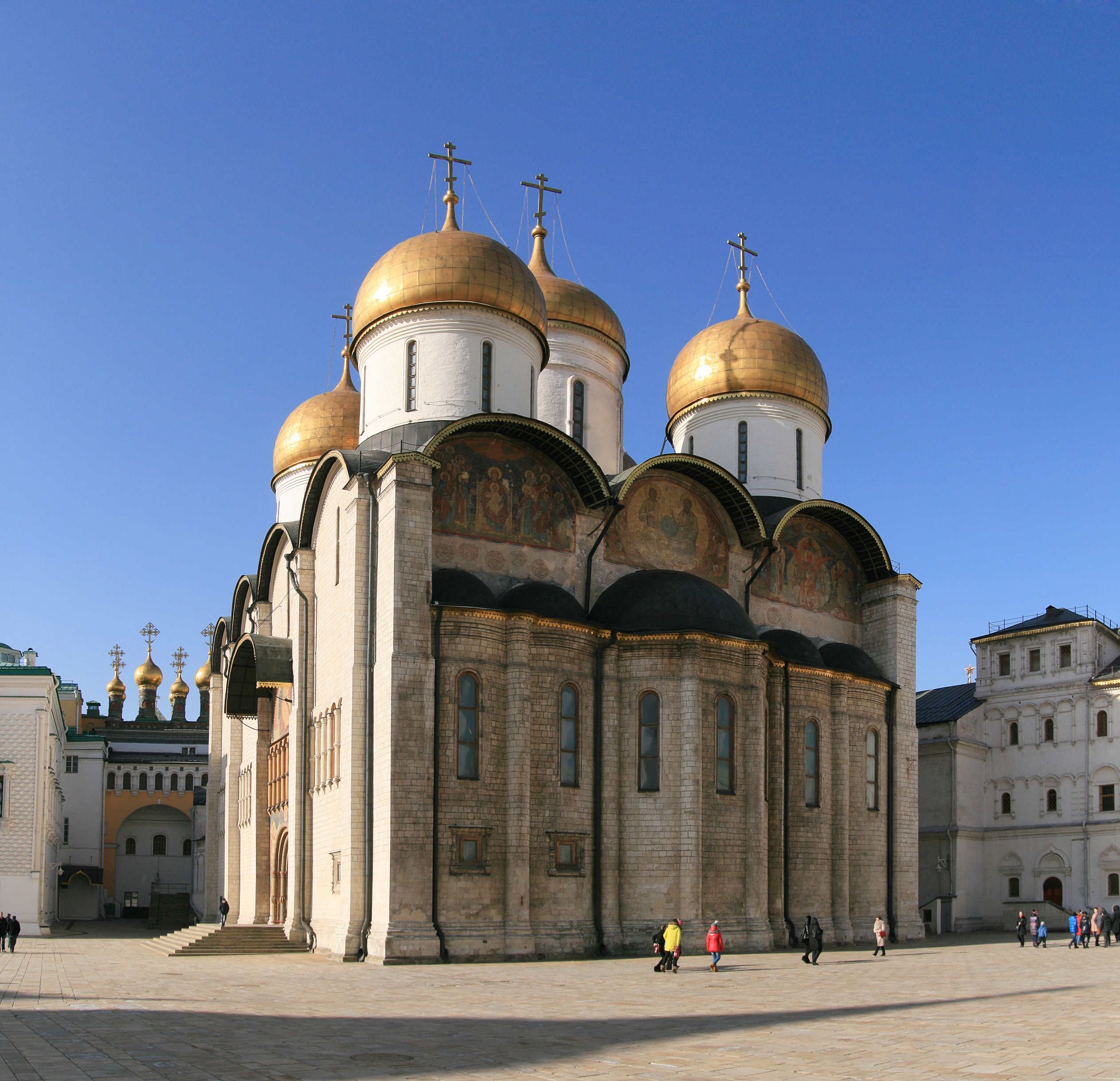 Moscow Kremlin, Dormition Cathedral